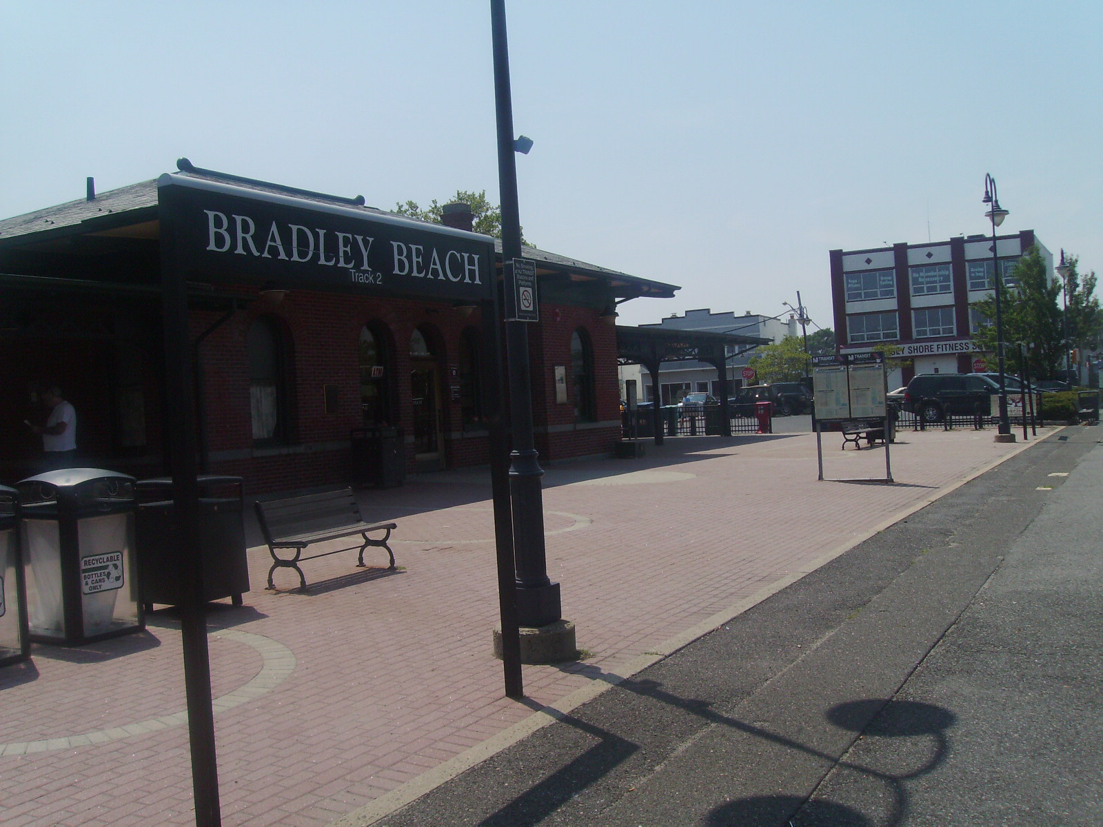 The Bradley Beach New Jersey Transit station in Bradley Beach, New Jersey. The station depot built by the Central Railroad of New Jersey is visible.